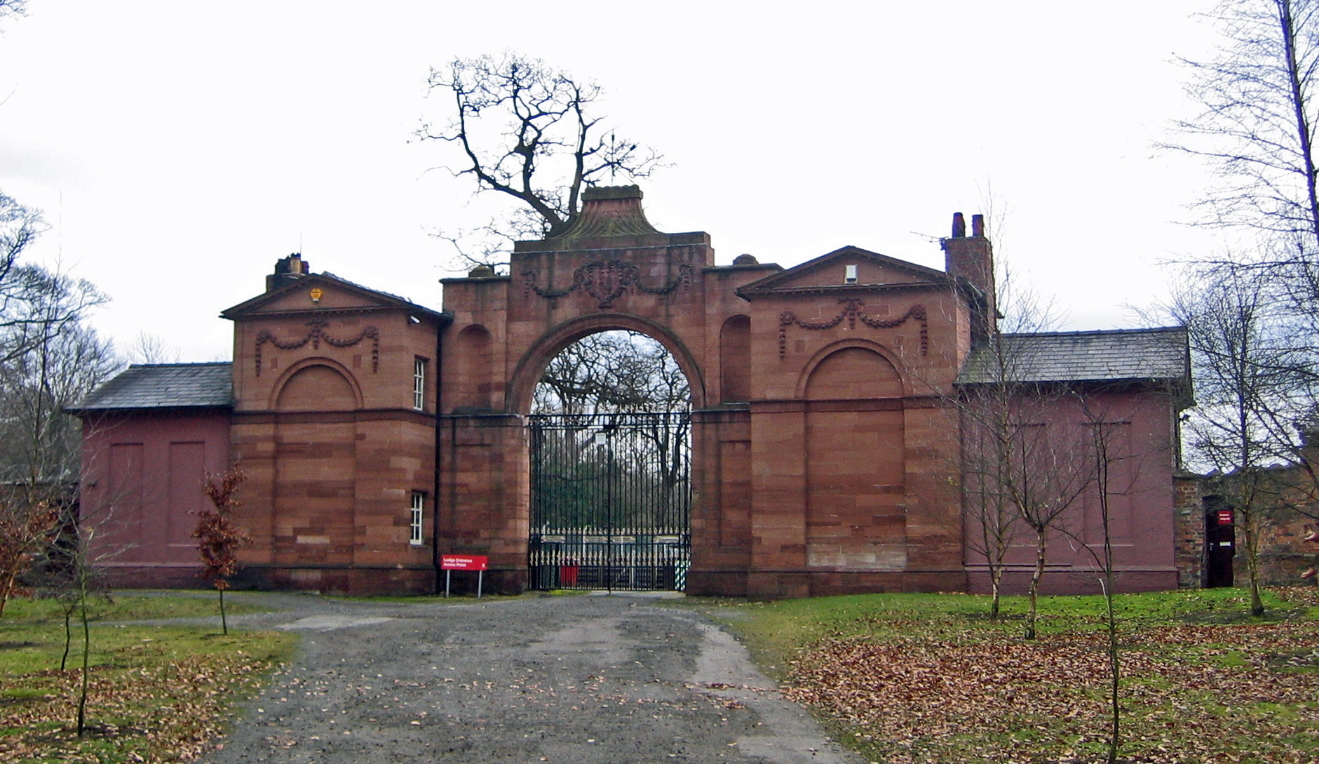 Photograph of the entrance lodge to Oulton Park, Cheshire